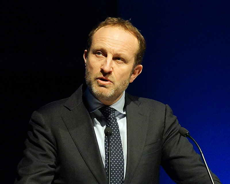 Martin Lidegaard - Danish politician, member of the Danish Folketing for Danish Social Liberal Party, Minister of Climate, Energy and Building (2011-14) and Minister of Foreign Affairs (from 2014) - from the European Wind Energy Association offshore event "EWEA Offshore 2015" in Copenhagen, Denmark, March 2015